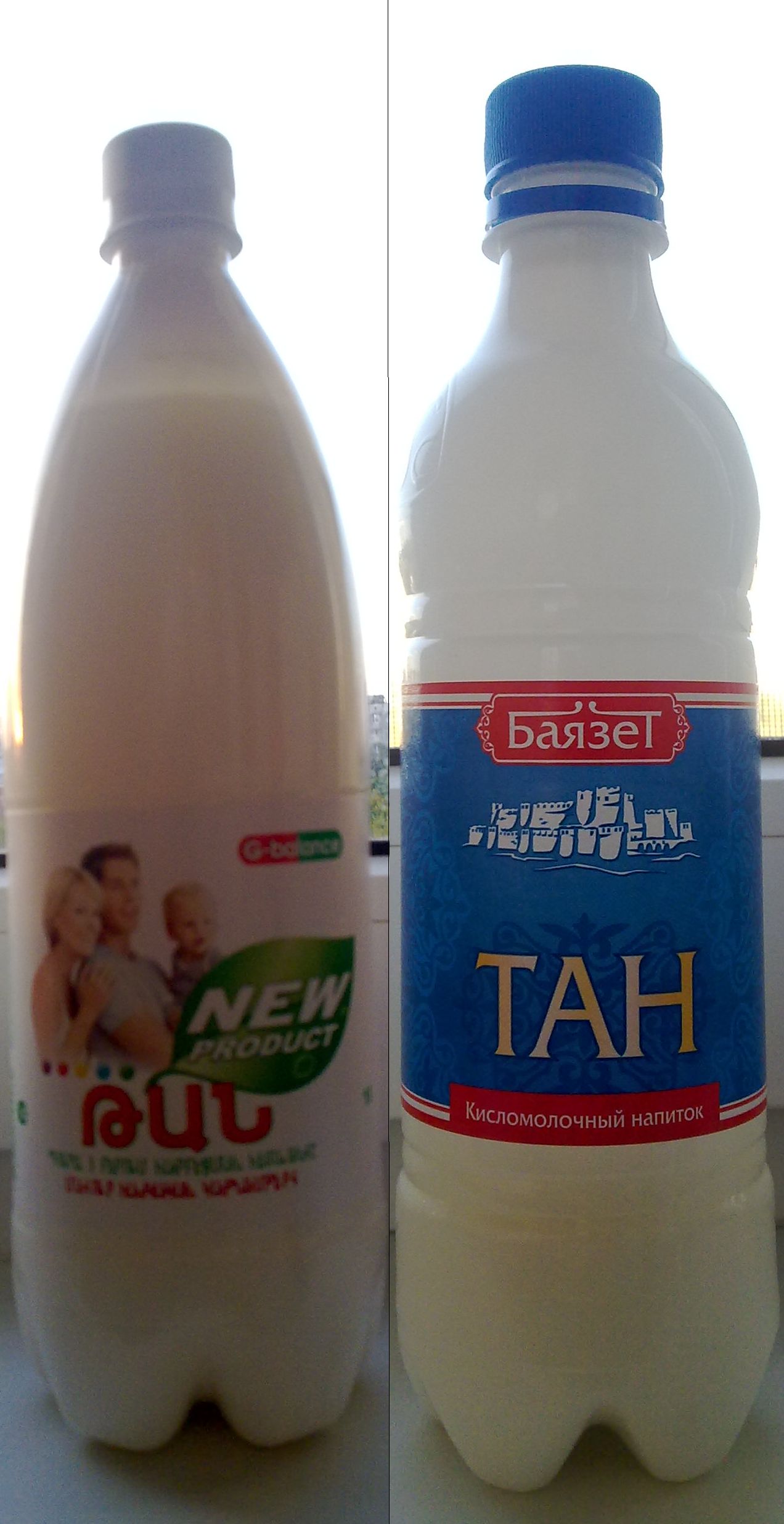 Armenian tans produced in Russia